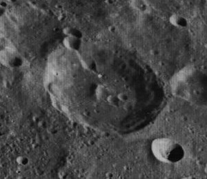 Oblique view of Pizetti crater, on the far side of the moon, facing roughly south.